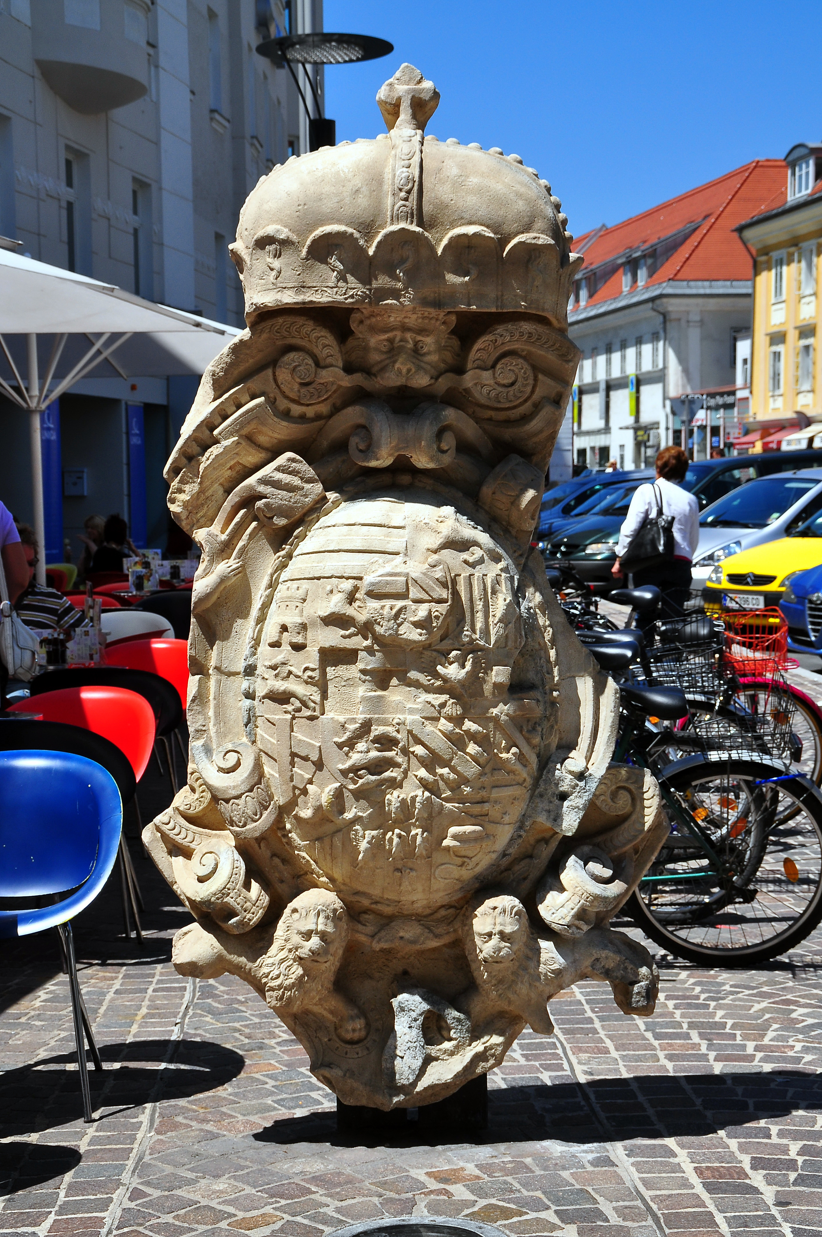 Exposed portal stone with coats of arms from the former city gate "Karlstor" at the entrance of the Wiener Gasse, inner city, Klagenfurt, Carinthia, Austria, EU